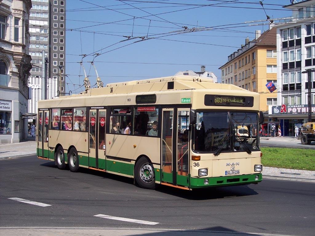 The oldest trolleybuses on Germany's largest network are from a batch of MAN SL 172 HO built in the 1980s. These tri-axle rigids are due for replacement with artics, but in the meantime continue to be used. Trolleybus number 36 carried the old livery when photographed near Graf-Wilhelm-Platz